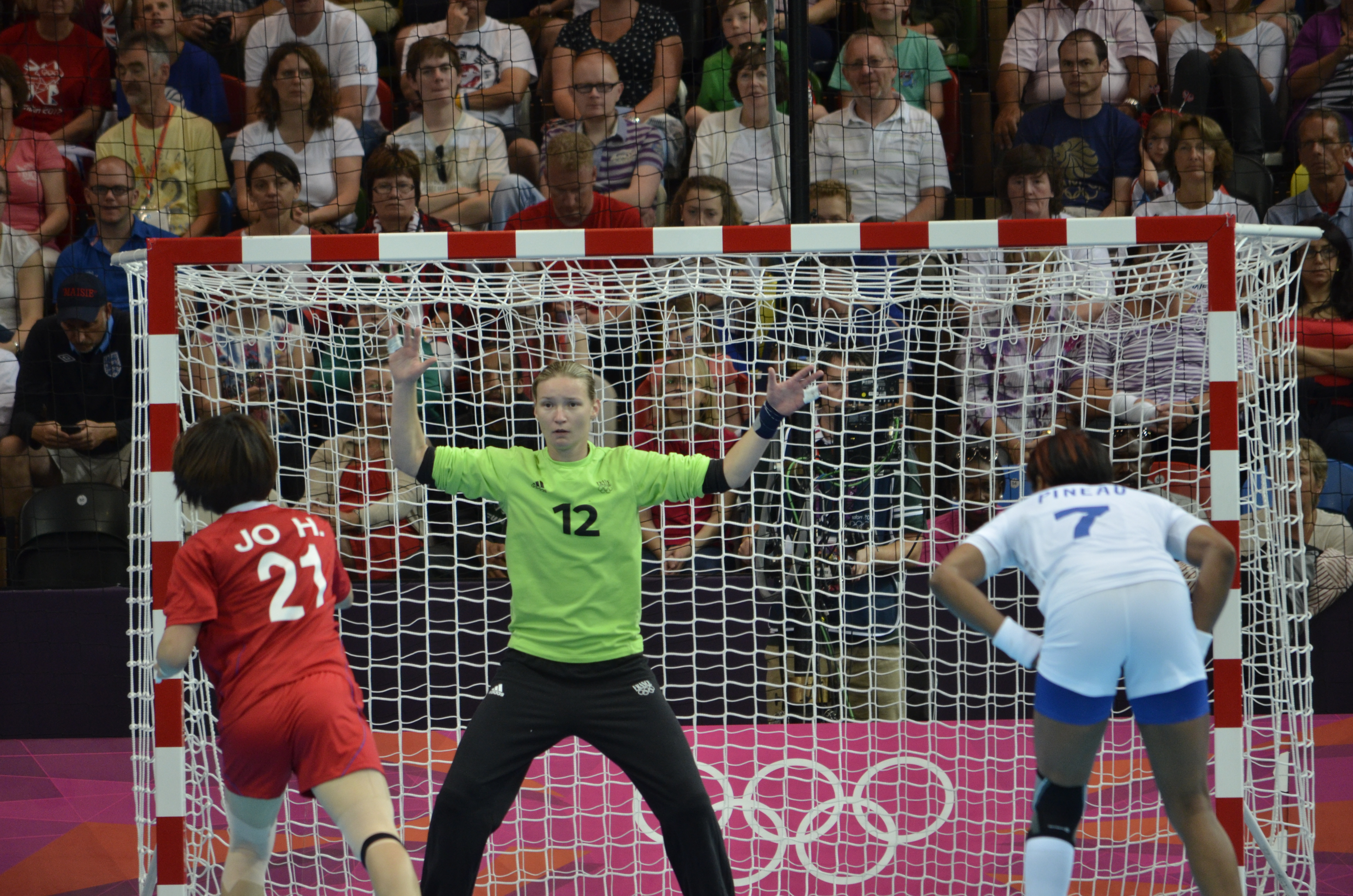 French handball goalkeeper Amandine Leynaud at the 2012 Summer Olympics in London. France vs South Korea.